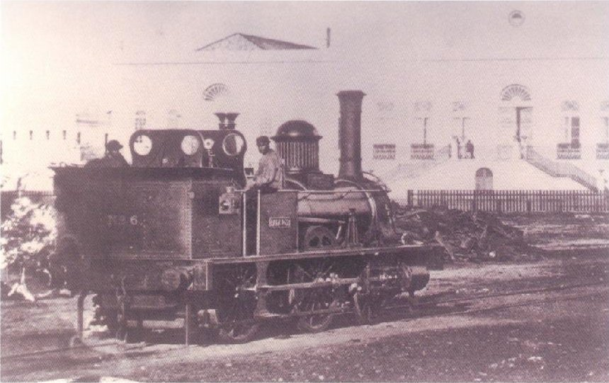 Badajoz locomotive of the Portuguese State Railways, in the Barreiro train yards, in Portugal. The building in the background is the old Barreiro Train Station, closed around 1884, and transformed in an train shed.